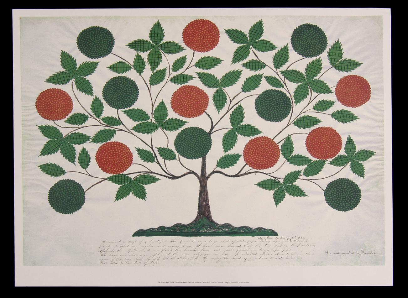 The Tree of Life, "Seen and painted by Hannah Cohoon. City of Peace Monday July 3rd 1854", from The Andrews Collection at Hancock Shaker Village.